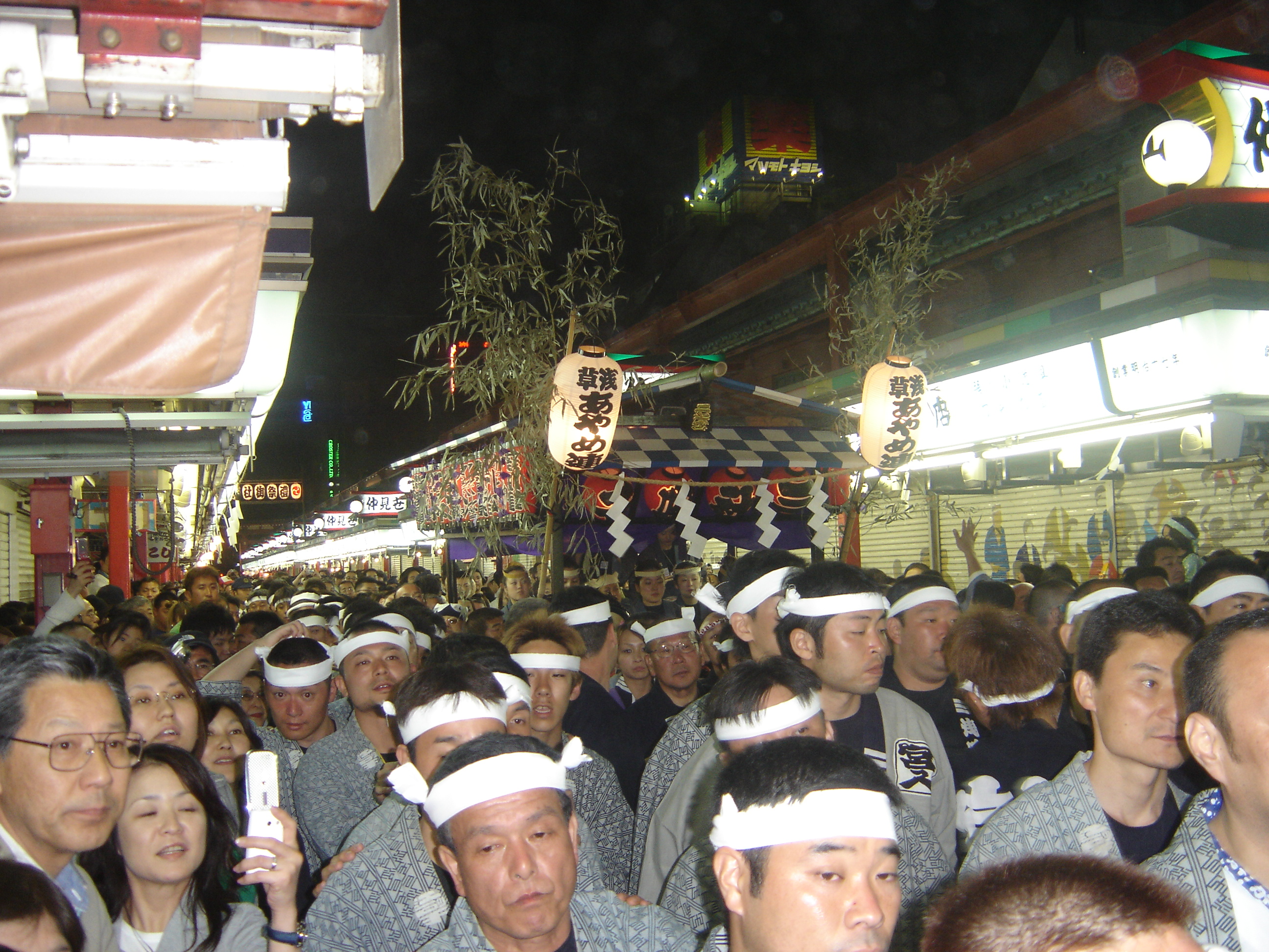 A large music float is carried through the Nakamise on Sunday night during Sanja Matsuri.